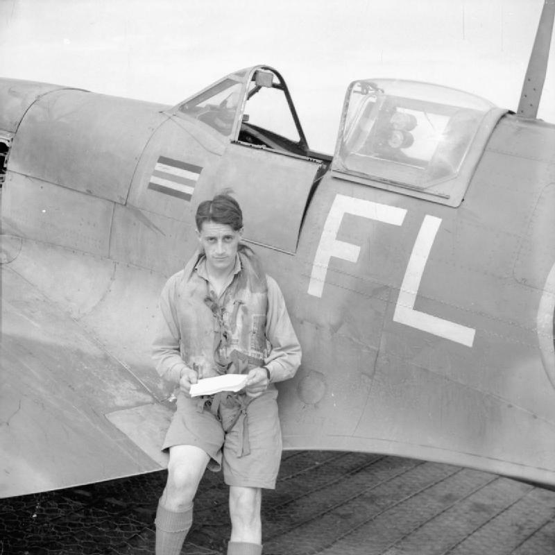 Commonwealth Air Aces of the Second World War Acting Wing Commander Colin Gray, the top scoring New Zealand pilot with 27 kills, pictured with his Supermarine Spitfire at Souk-el-Kehemis while commanding No 81 Squadron, Royal Air Force in North Africa.